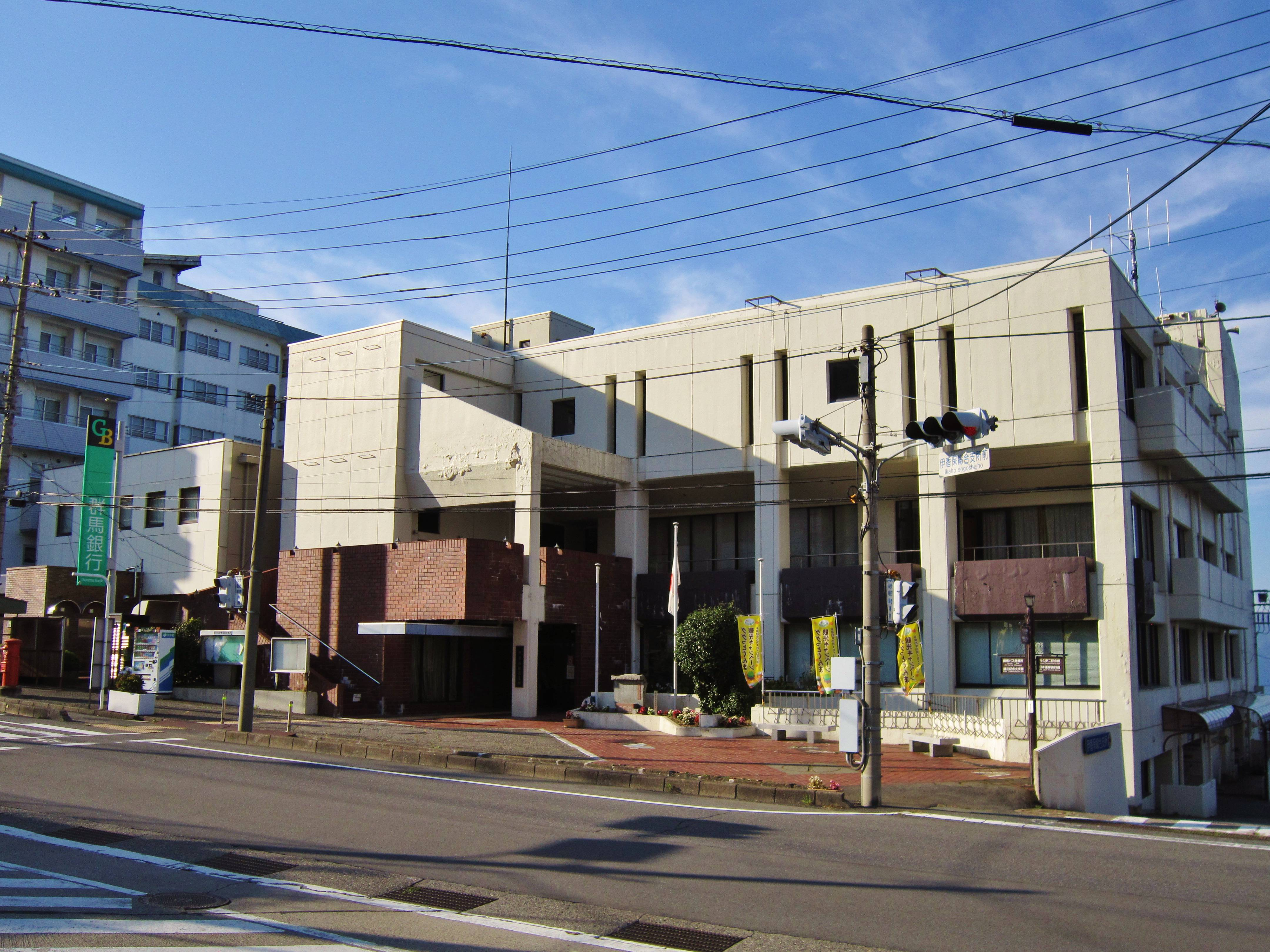 Shibukawa city Ikaho branch office.